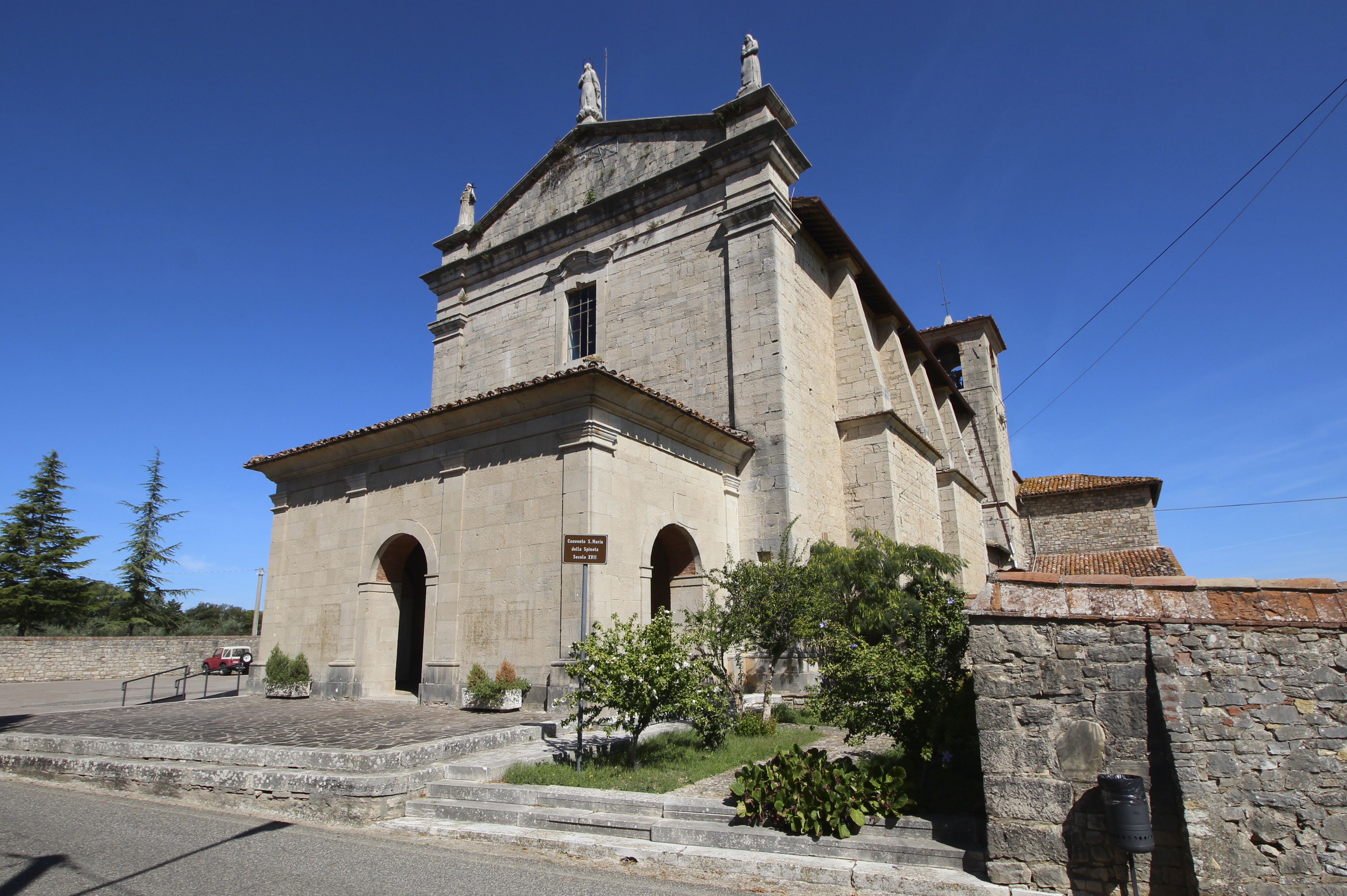 church and convent Santa Maria della Spineta (Santa Maria Assunta), Spineta, hamlet of Fratta Todina, Province of Perugia, Umbria, Italy